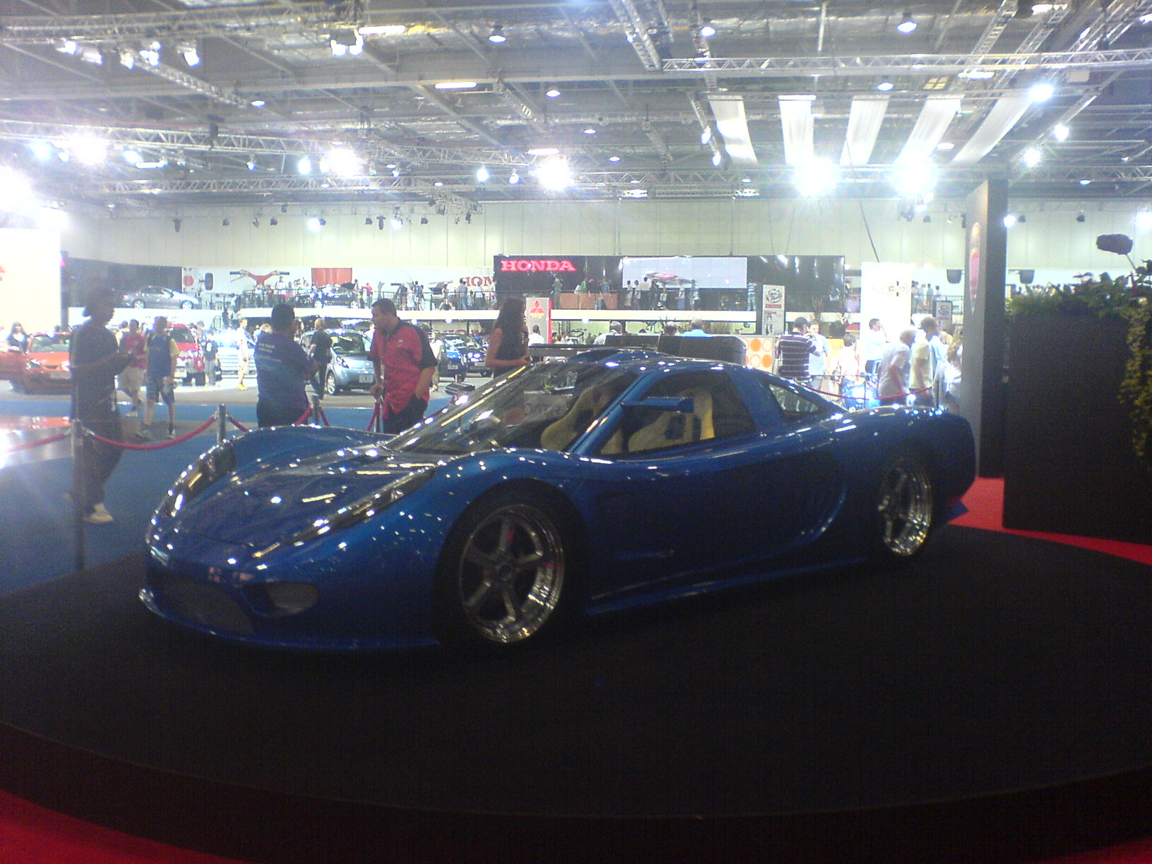 At the 2006 British International Motor Show.